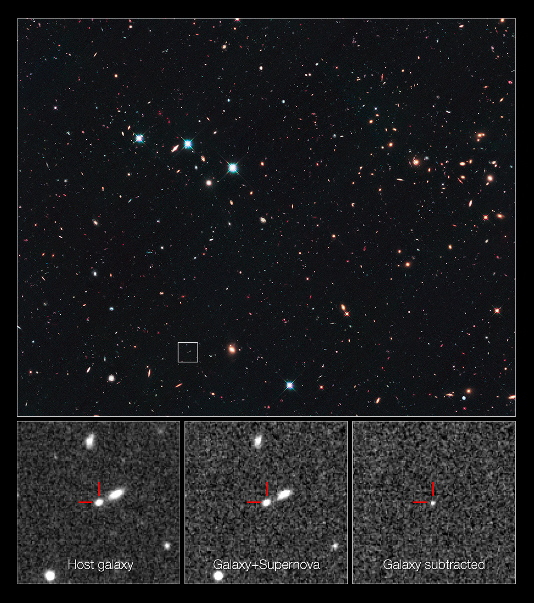 This is a NASA/ESA Hubble Space Telescope view looking long ago and far away at a supernova that exploded over 10 billion years ago — the most distant Type Ia supernova ever detected. The supernova’s light is just arriving at Earth, having travelled more than 10 billion light-years (redshift 1.914) across space. Astronomers spotted the supernova in December 2010 in the Cosmic Assembly Near-infrared Deep Extragalactic Legacy Survey (CANDELS) field, and named it SN UDS10Wil (nicknamed SN Wilson). The small box in the top image pinpoints the supernova’s host galaxy in the CANDELS survey. The image is a blend of visible and near-infrared light, taken by Hubble’s Advanced Camera for Surveys (ACS) and Wide Field Camera 3 (WFC3). The search technique involved taking multiple near-infrared images with WFC3 spaced roughly 50 days apart over the span of three years, looking for a supernova’s faint glow. The three bottom images, taken in near-infrared light with WFC3, demonstrate how the astronomers found the supernova. The image at the far left shows the host galaxy without the supernova. The middle image, taken a year later, reveals the galaxy with the supernova. The supernova cannot be seen because it is too close to the centre of its host galaxy. To detect the supernova, astronomers subtracted the left image from the middle image to see the light from the supernova alone, shown in the image at far right. The astronomers then used WFC3’s spectrometer and the European Southern Observatory’s Very Large Telescope to verify the supernova’s distance and to decode its light, finding the unique signature of a Type Ia supernova.